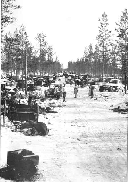 South Lemetti after liberation by Finnish troops, beginning in March 1940.